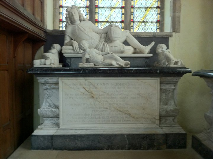 Memorial to Sir John Germaine in St Peter's Church, Lowick, Northamptonshire